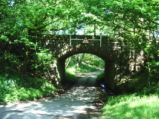 Railway Bridge over Jordan Lane. This bridge took the Clapham to Low Gill railway over Jordan Lane. The railway was completed in 1861 and was open to passenger traffic until 1954. It was finally closed to all traffic in 1967